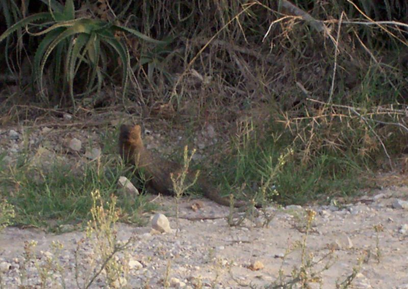 from he:תמונה:Nemia.JPG taken by he:משתמש:Pc84 near Caesarea, Israel.